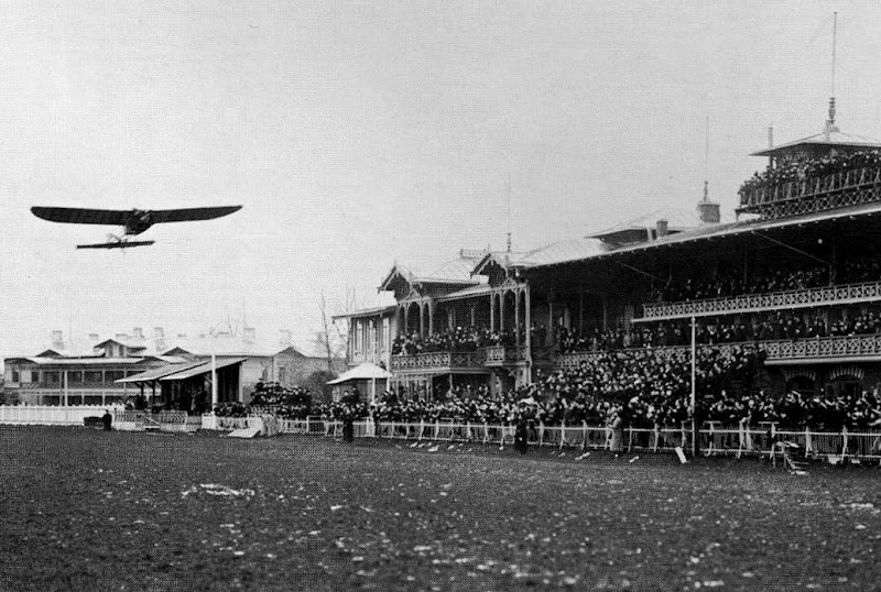 In the second public flight of an airplane in Russia, French aviator Albert Guillaud pilots a Blériot XI monoplane at the Kolomiyazhsky Hippodrome in St. Petersburg, November 1909